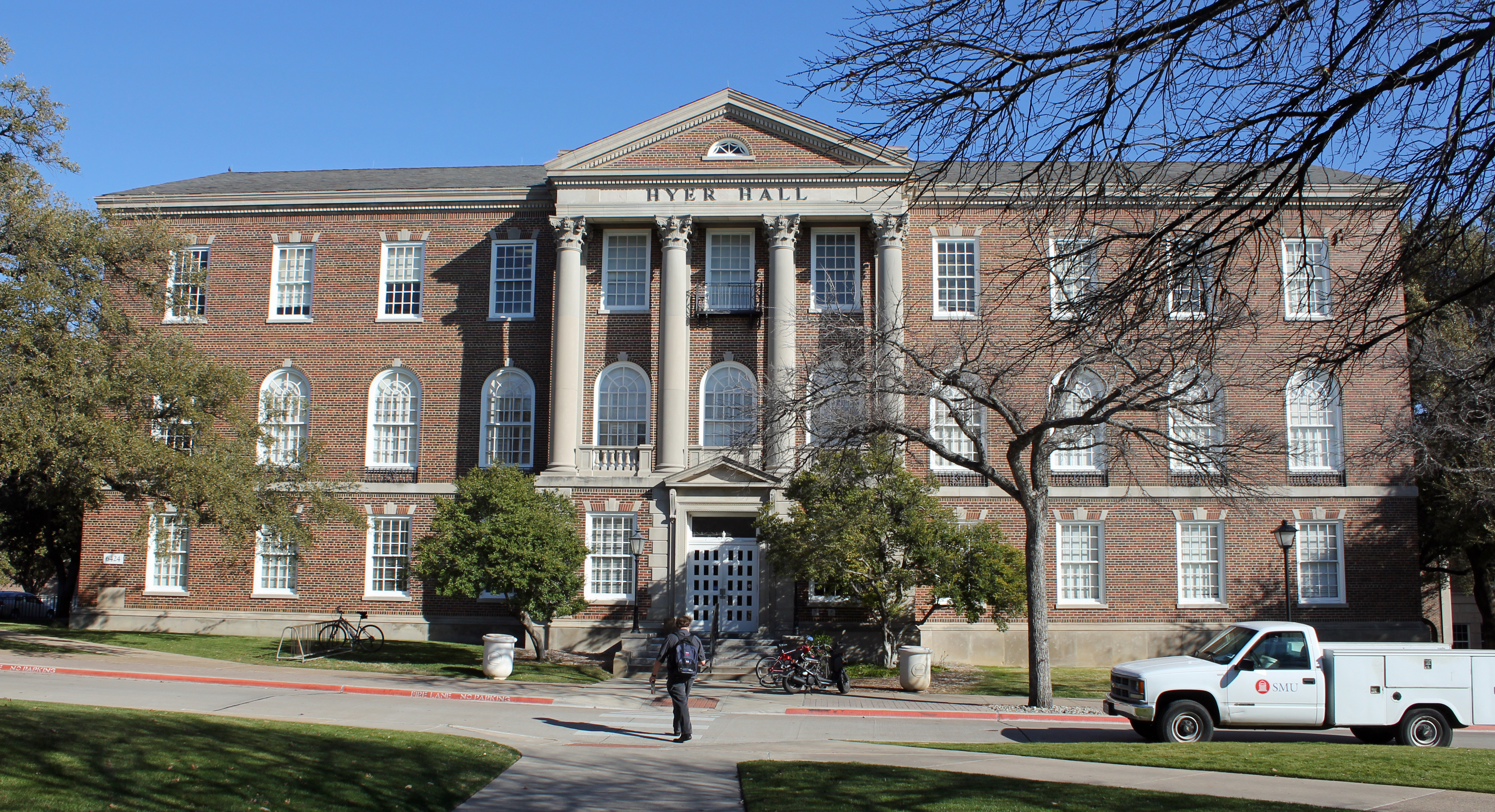 Hyer Hall on the Southern Methodist University campus. The property is listed on the National Register of Historic Places.